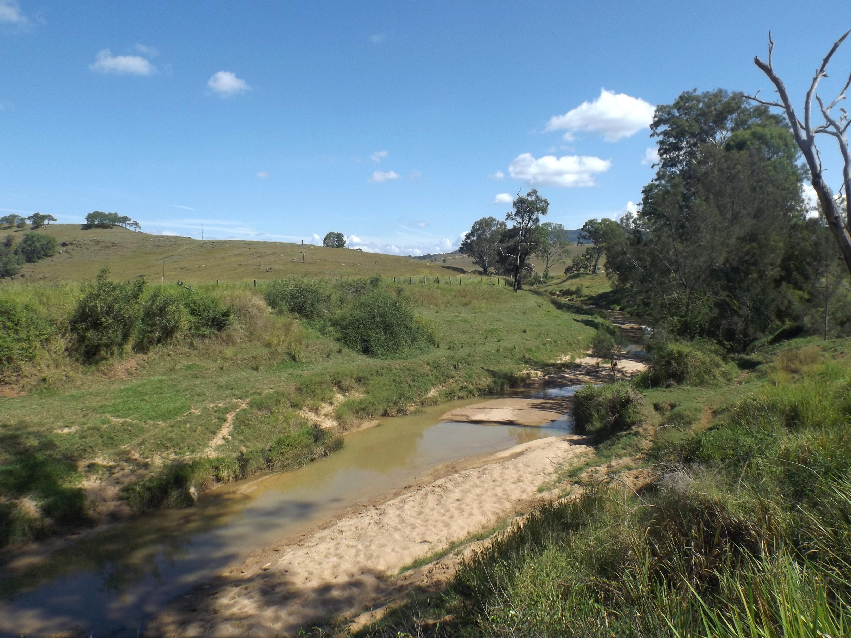 Photo of Knapp Creek along Knapp Creek Road at Knapp Creek, Scenic Rim Region, Queensland, Australia.